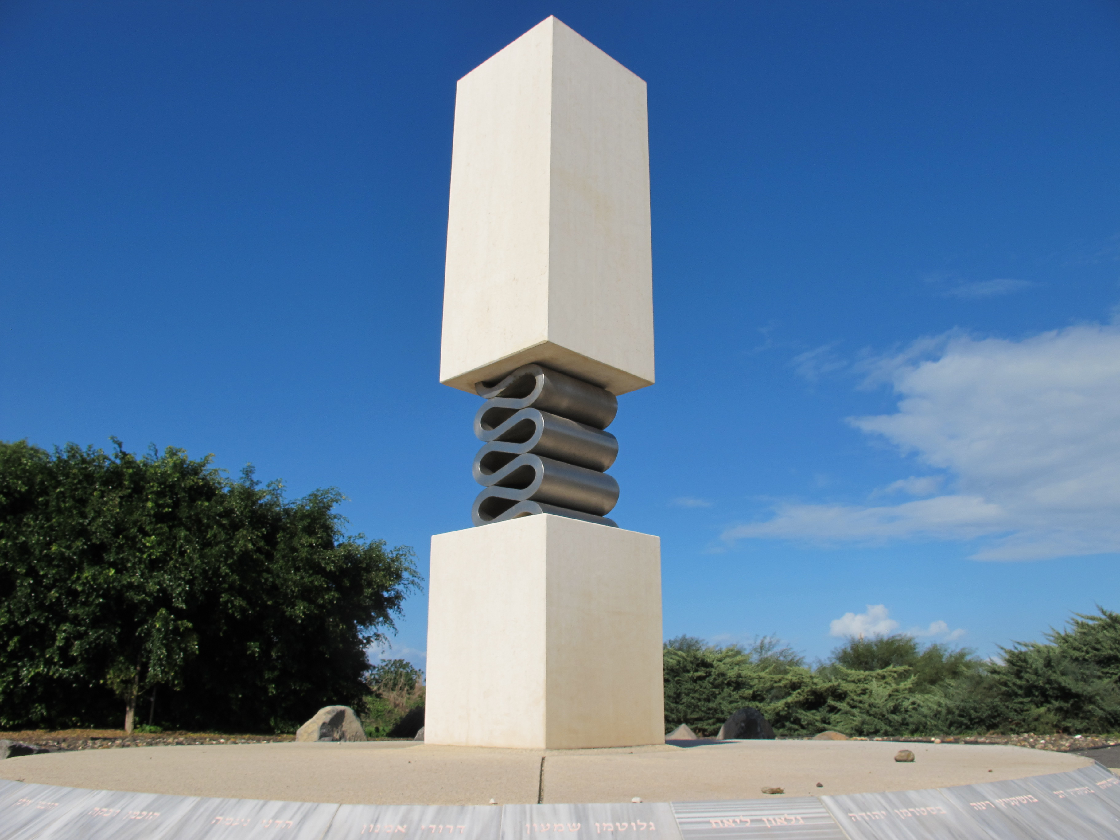 The Memorial to the 1978 Coastal Road bus attack.